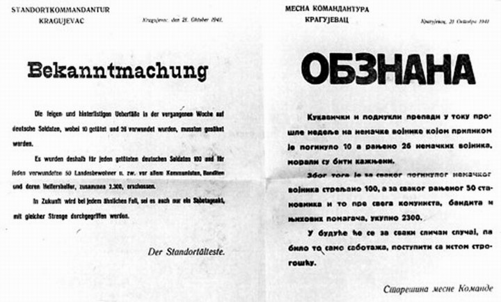 Kragujevac, the 21st October 1941 LOCATION COMMANDER KRAGUJEVAC Notice The cowardly and backward raids last week on German soldiers, with 10 killed and 26 wounded, had to be expiated. Therefore, for each killed German soldier 100, for every wounded 50 landlords, especially communists, bandits and their accomplices, altogether 2300, were shot to death. In the future, the same severity will be applied in every similar case, even a sabotage act. The local commander.